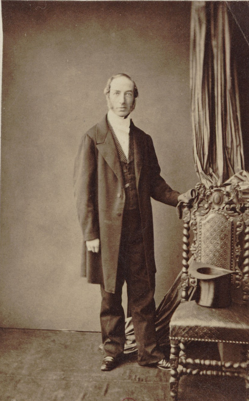 Alfred Malherbe (14 July 1804 – 14 August 1865) - dates presumptive - assumed to be the magistrate - identity check desirable